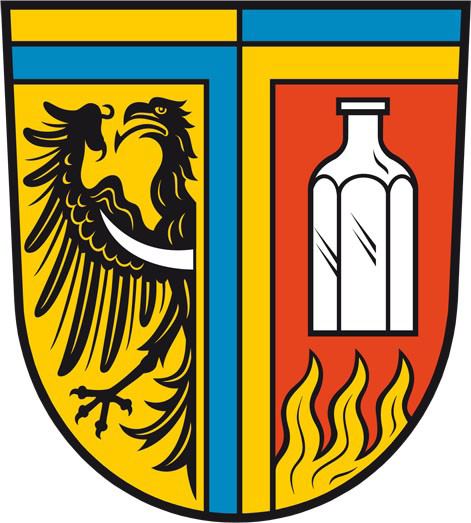 Coat of arms of Tschernitz, part of the German municipality of Tschernitz